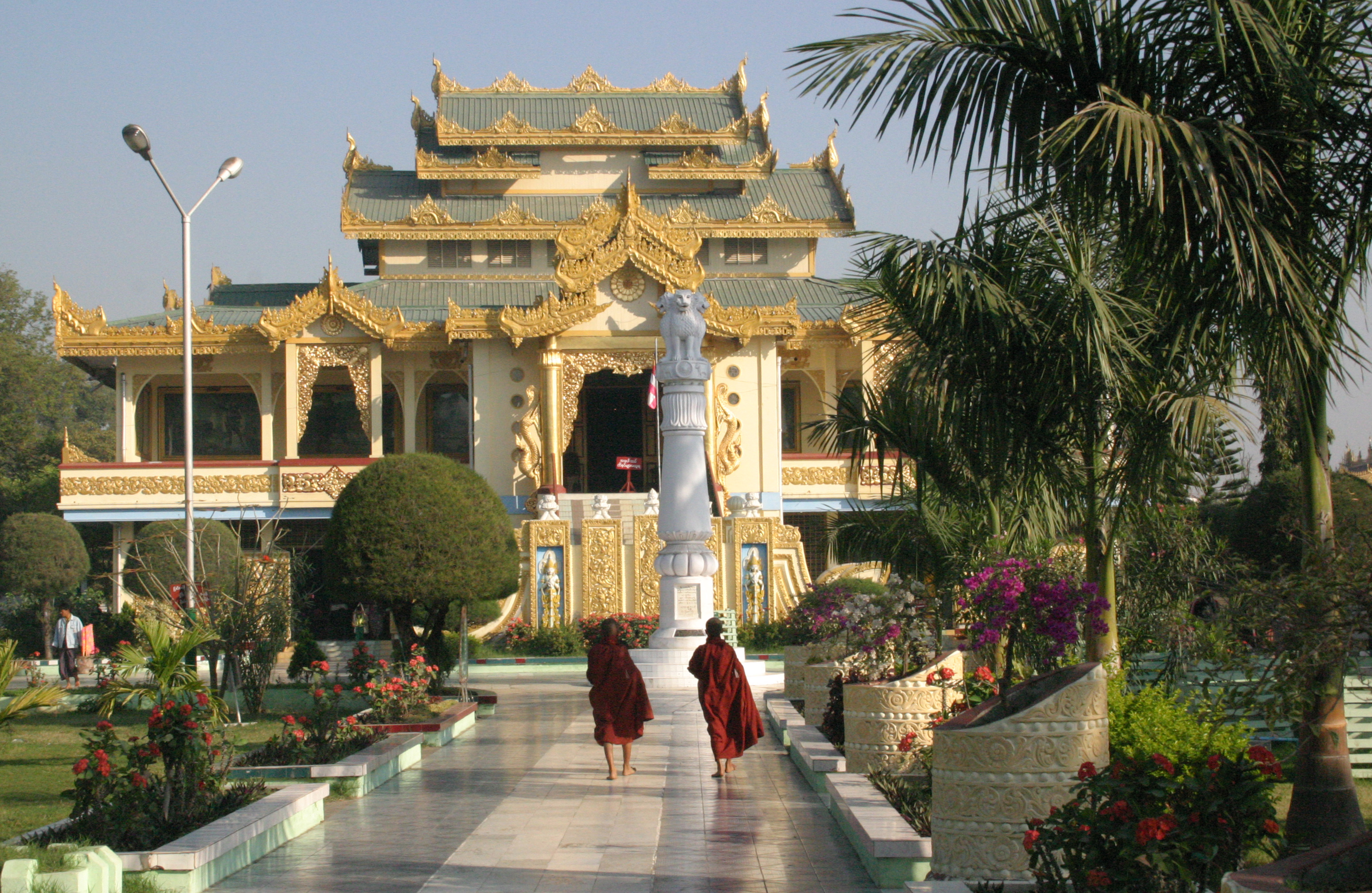 Mahamuni Pagoda in Mandalay in Myanmar.